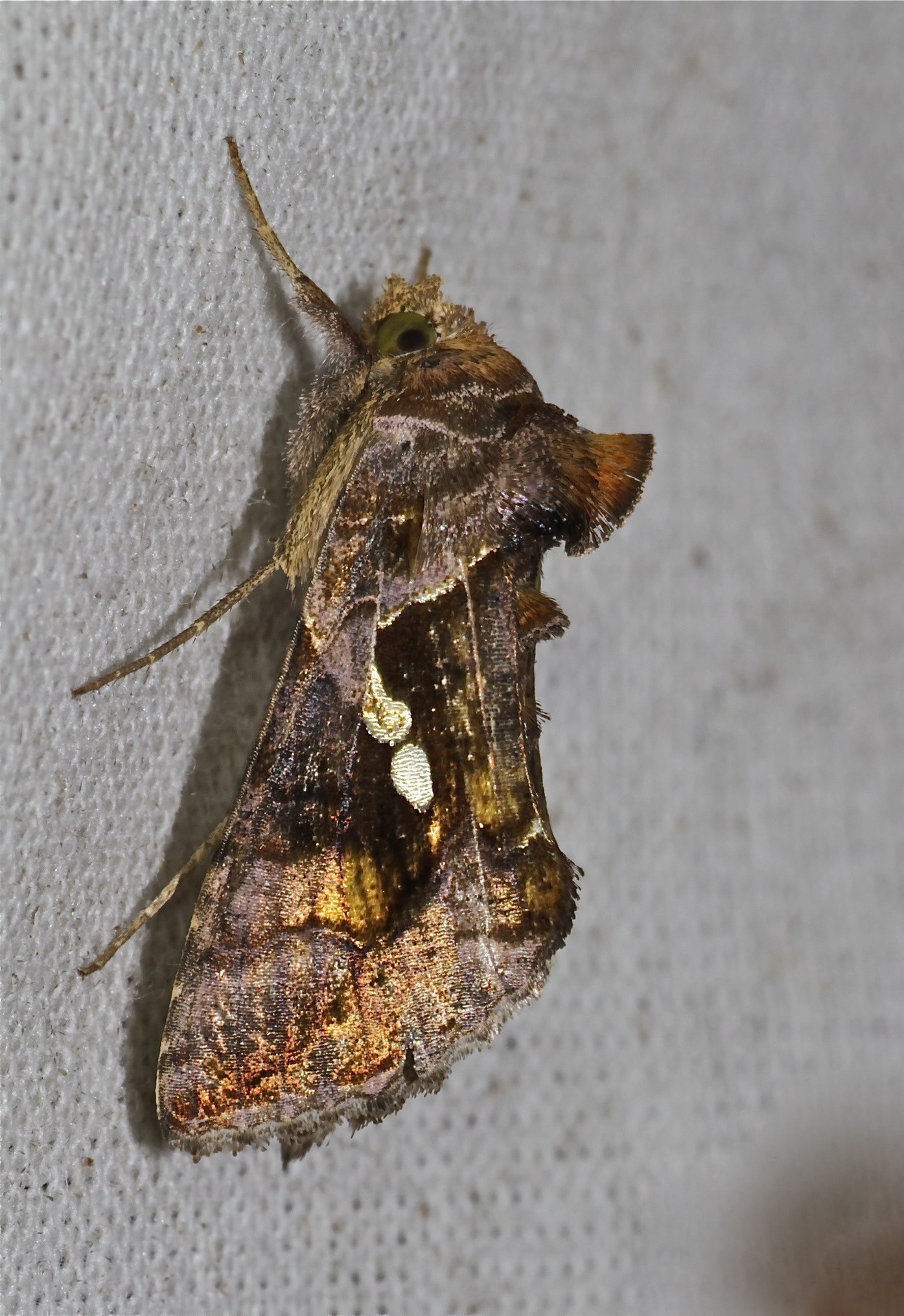 South Africa. Pietermaritzburg